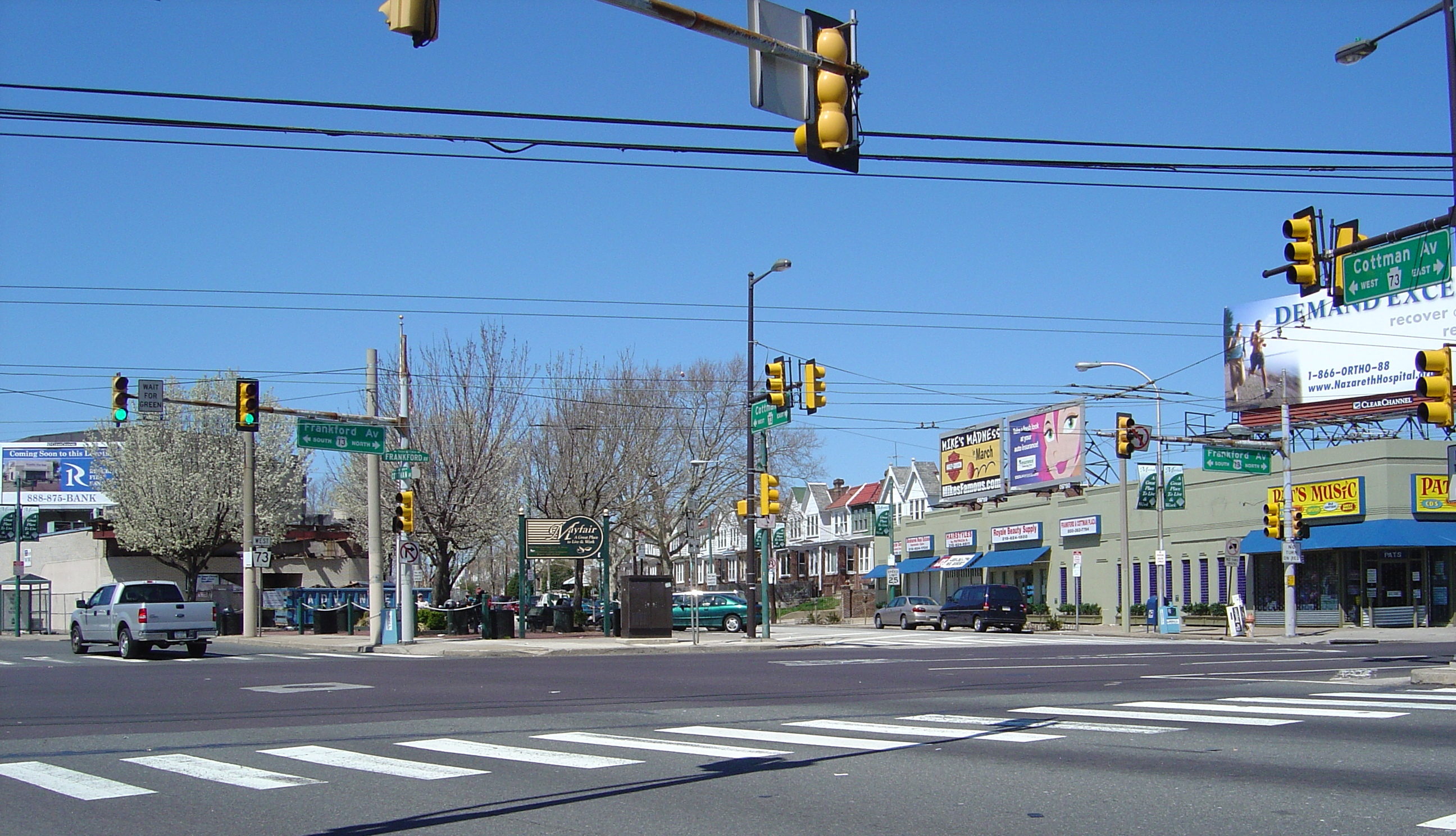 The intersection of Frankford (US 13) and Cottman Avenues (PA 73) in the Mayfair section of Northeast Philadelphia.